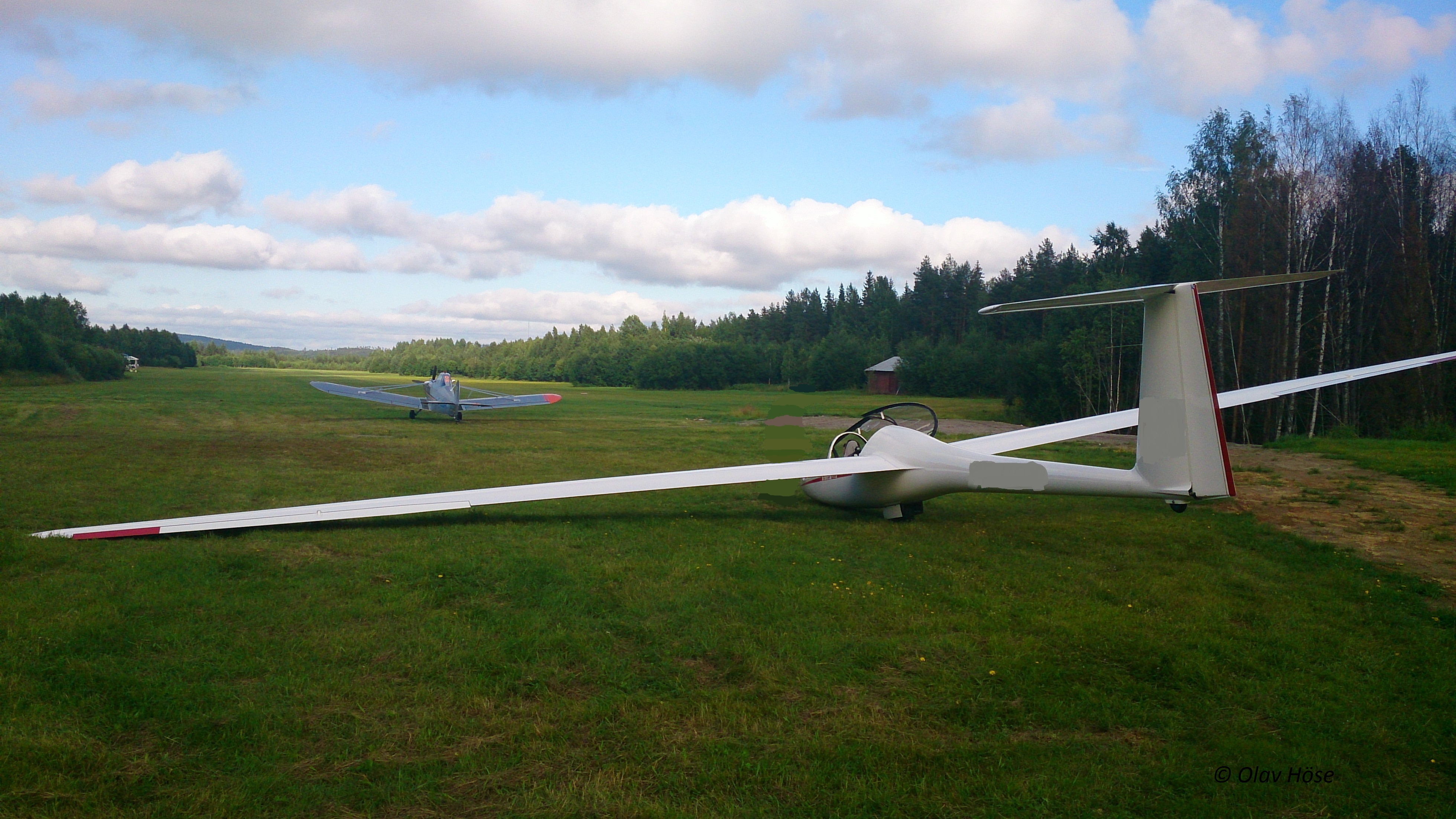 A DG-500 waiting to be launched behind a Piper Pawnee